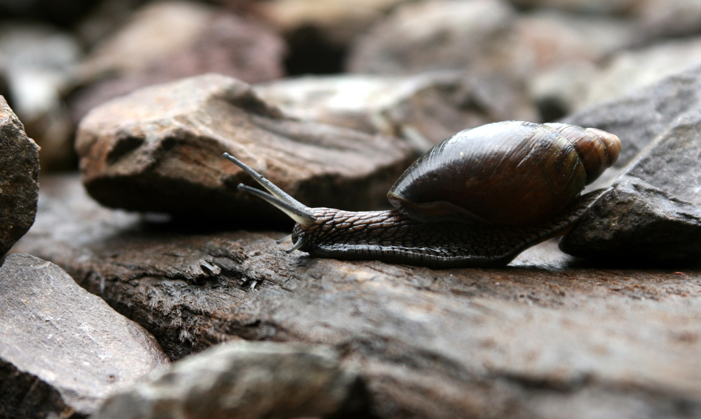 an unidentified land snail from Machu Picchu, Peru